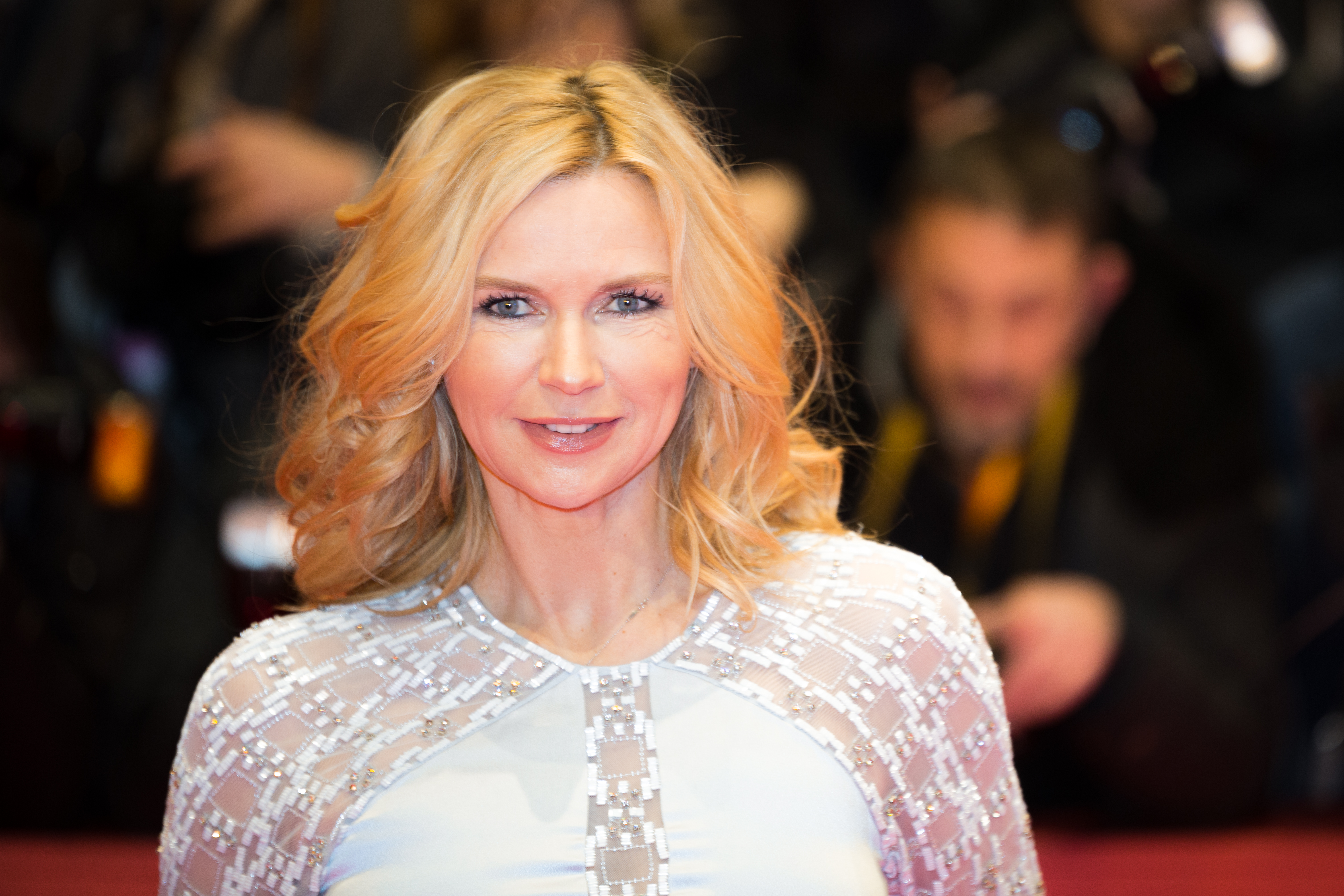 Veronica Ferres on the red carpet of the Berlinale 2017 opening film